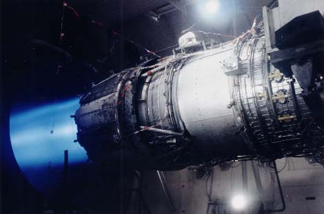 A GENERAL ELECTRIC F110 engine undergoes performance testing in test cell J-2 at the Air Force's Arnold Engineering Development Center. The test was to determine the engine's operating characteristics over a full range of flight conditions and mission requirements. this engine is one of the propulsion systems for the Air Force's F-16 Fighting Falcon.